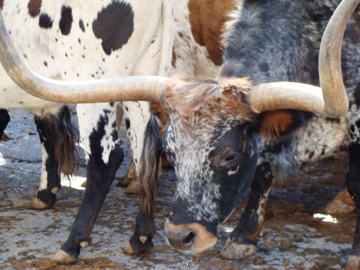 A Texas Longhorn, in San Antonio, Texas